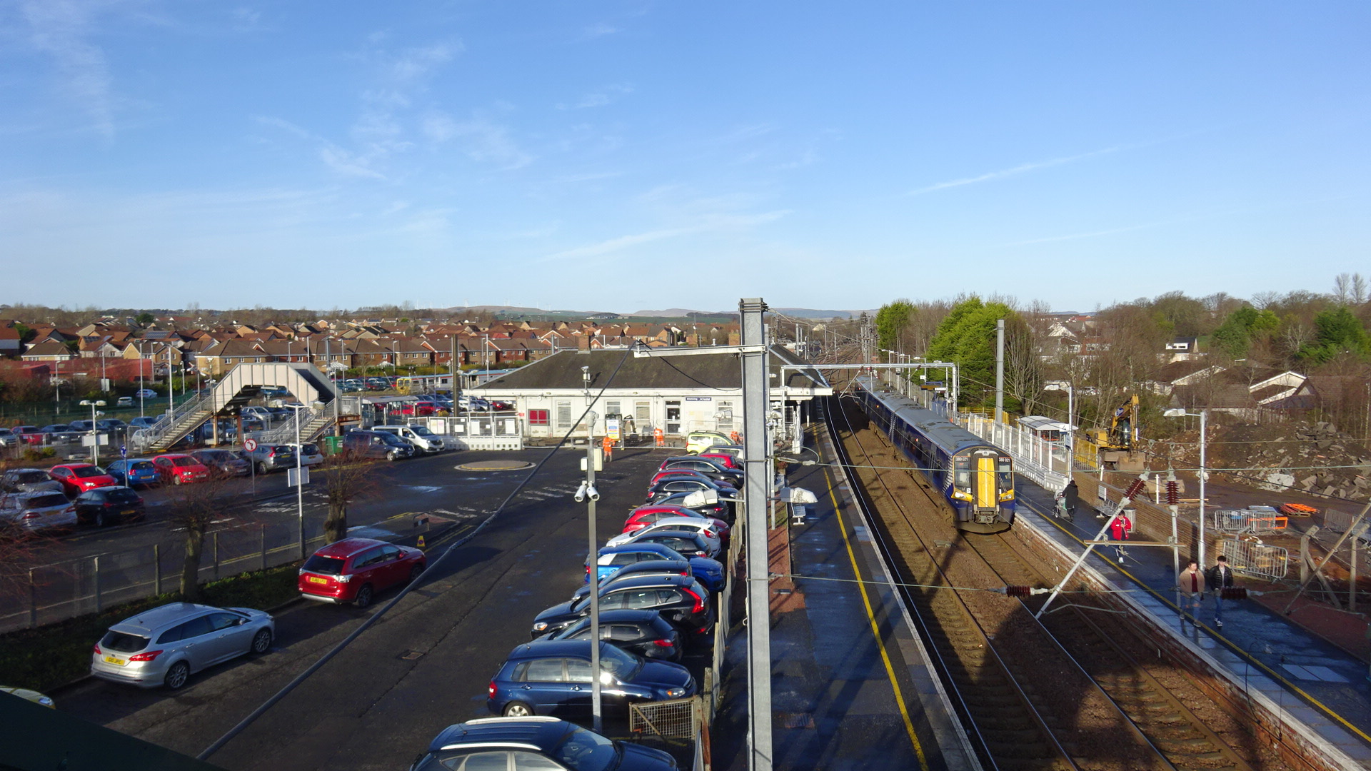 Kilwinning railway station. View of Glasgow - Ayr and Glasgow - Largs platforms from the pedestrian overbridges..